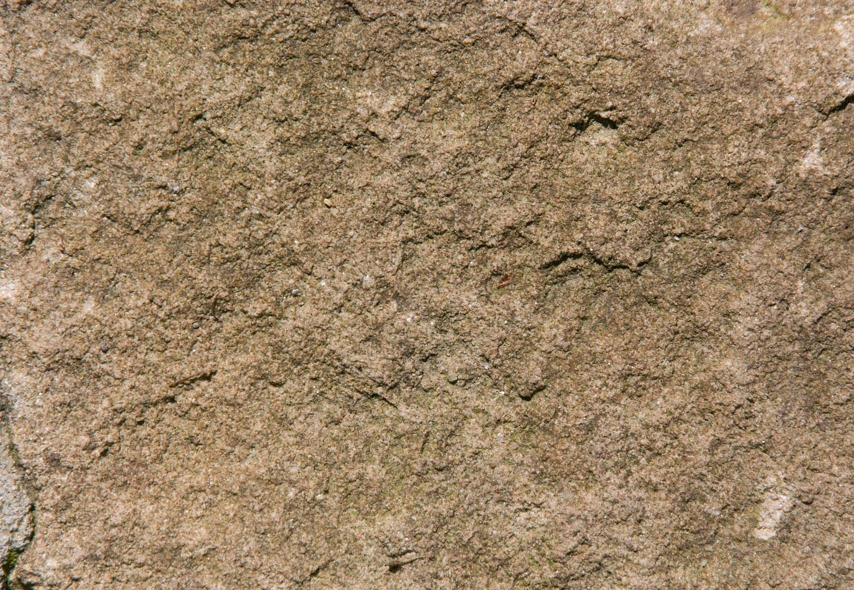 Tociline sandstone, Serbia